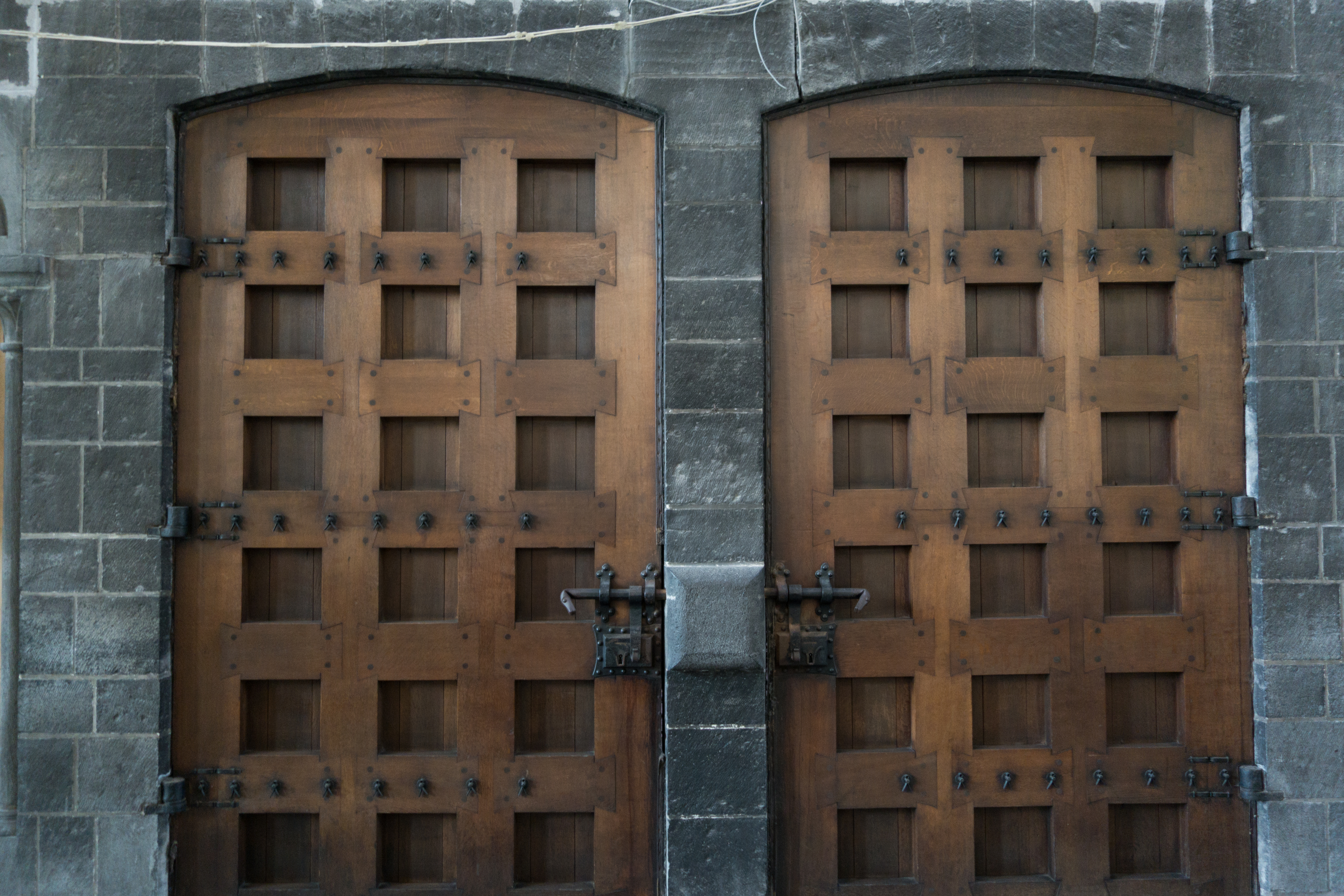 Church of Our Lady, Bruges, Belgium, interior